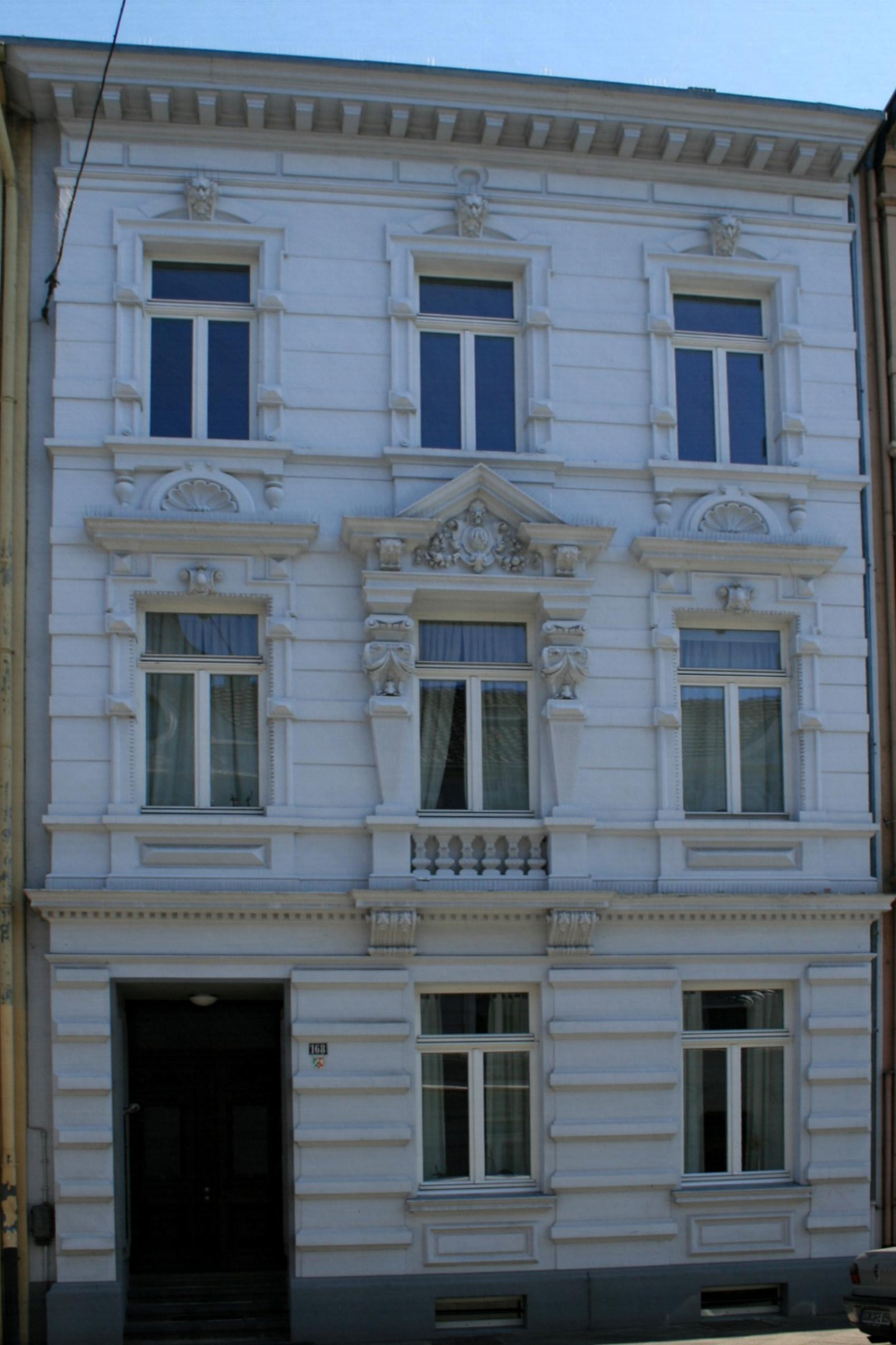 Cultural heritage monument No. R 071 in Mönchengladbach